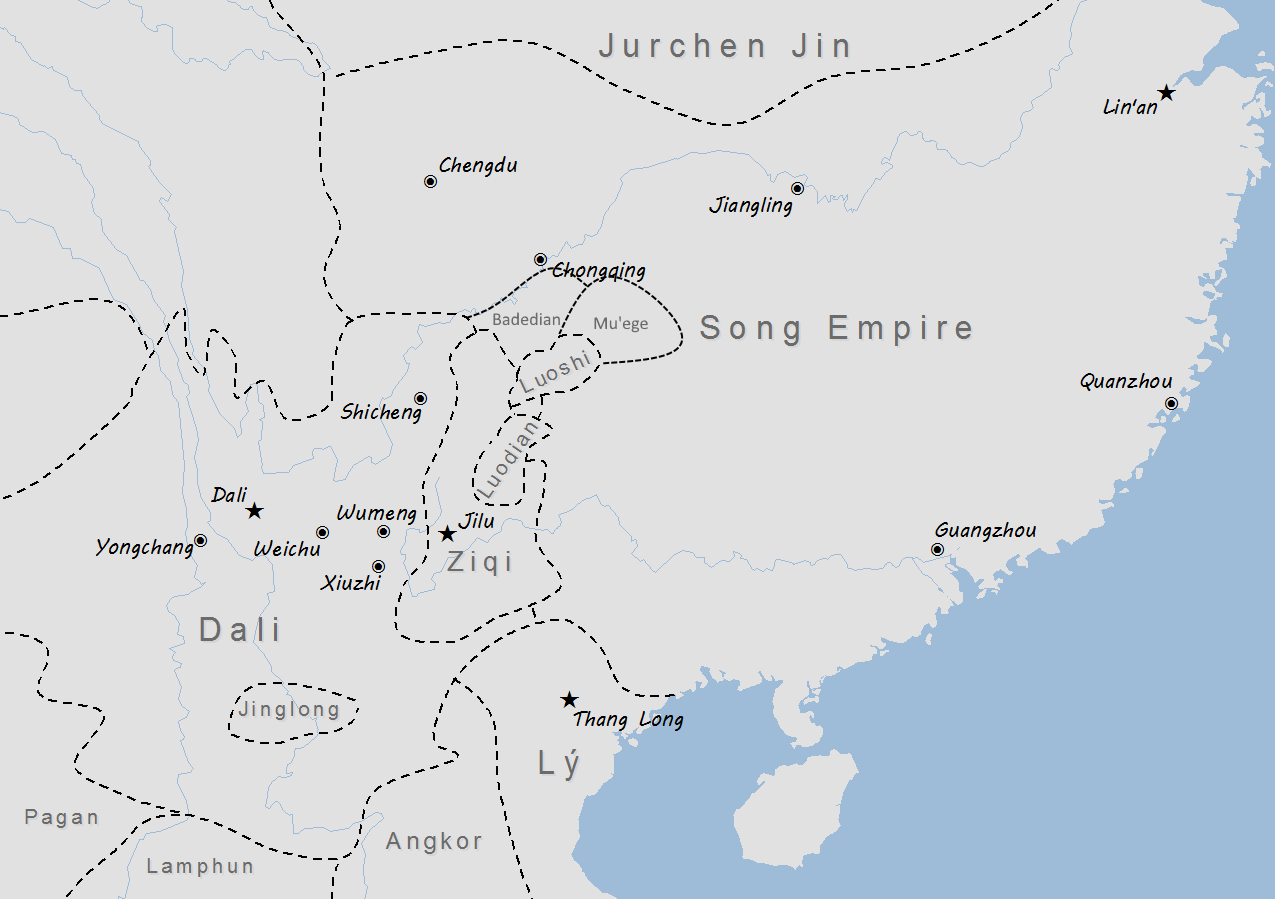 Map showing the location of Ziqi Kingdom in 1200